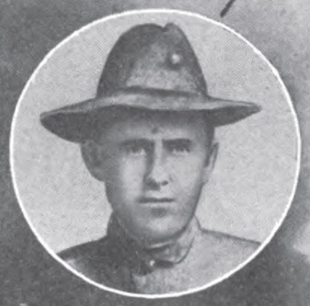 United States Marine Corps private Daniel A. Haggerty, killed in the 1914 battle which began the U.S. occupation of Veracruz, Mexico